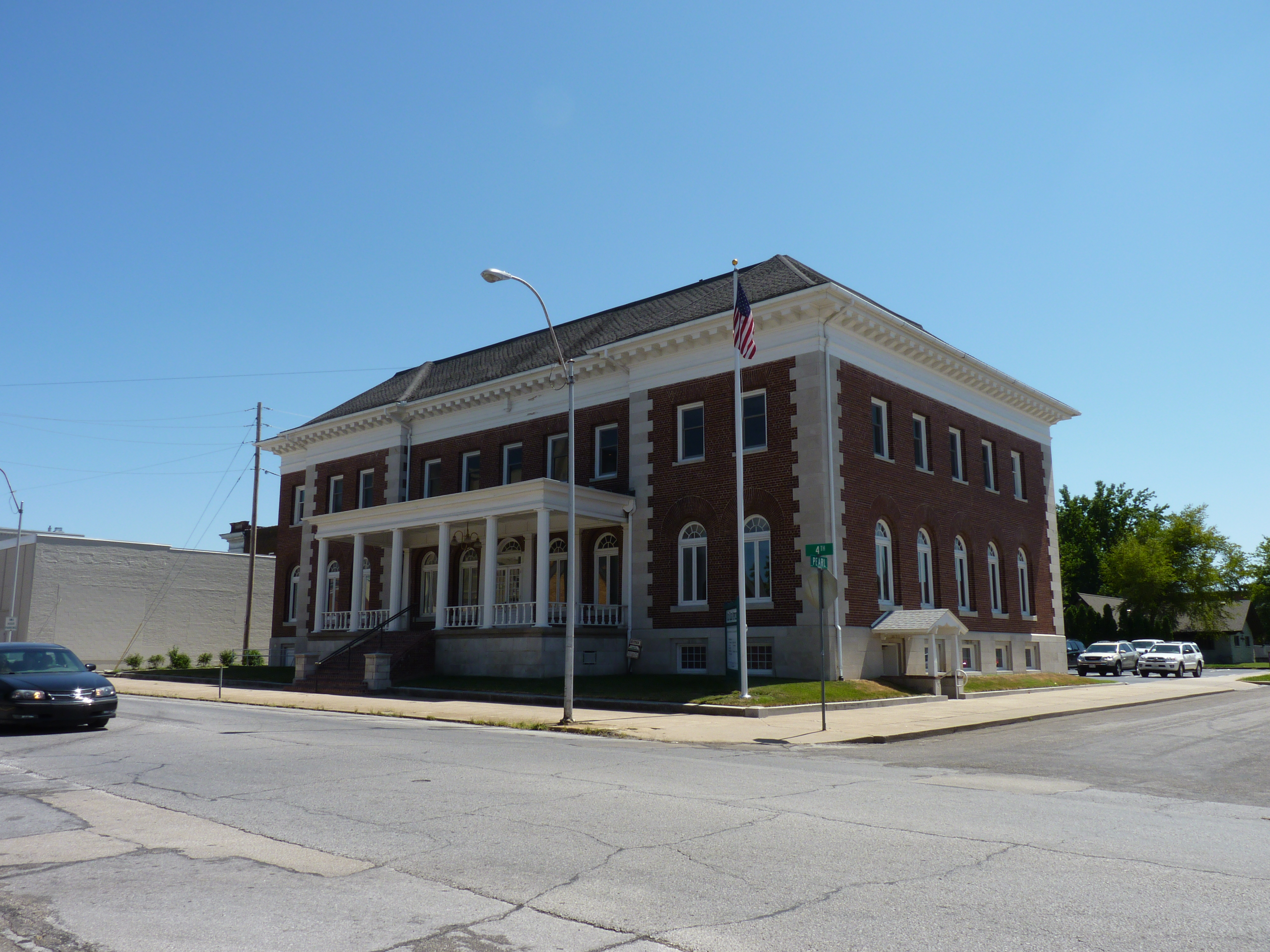 Photo of the old Elks lodge in Joplin, MO, USA.